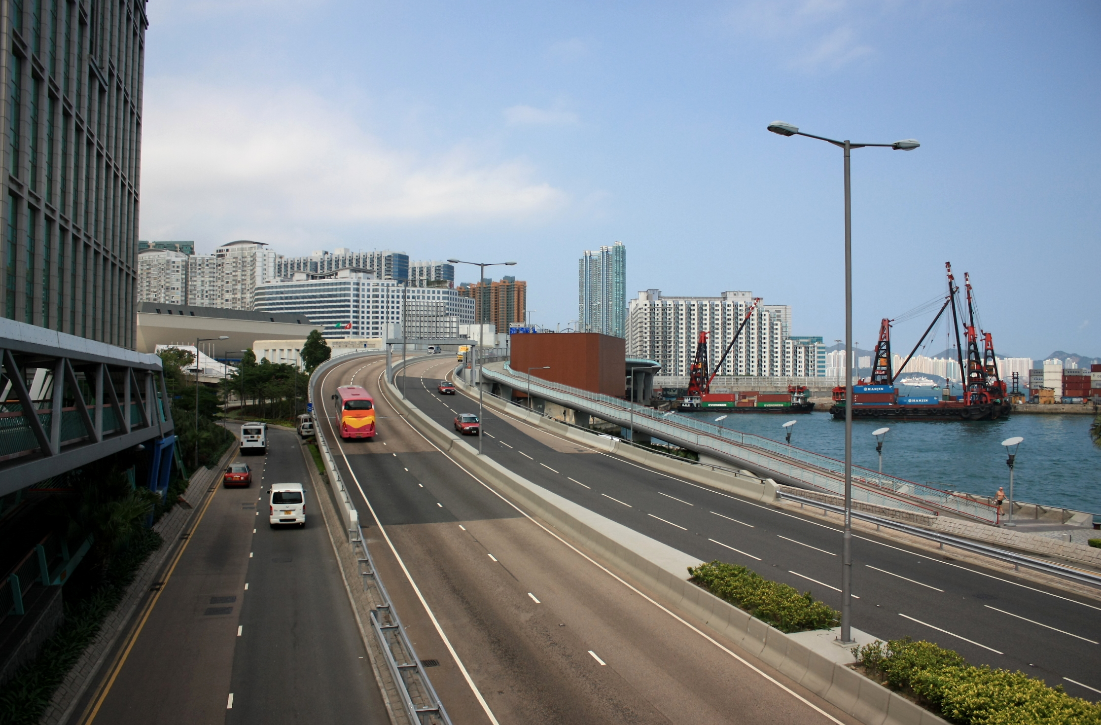 Salisbury Road Access to Hung Hom Bypass 紅磡繞道